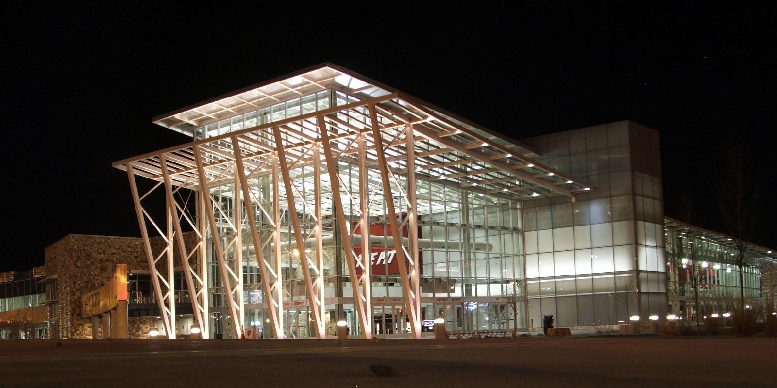 The main entrance of the Pit arena at night.